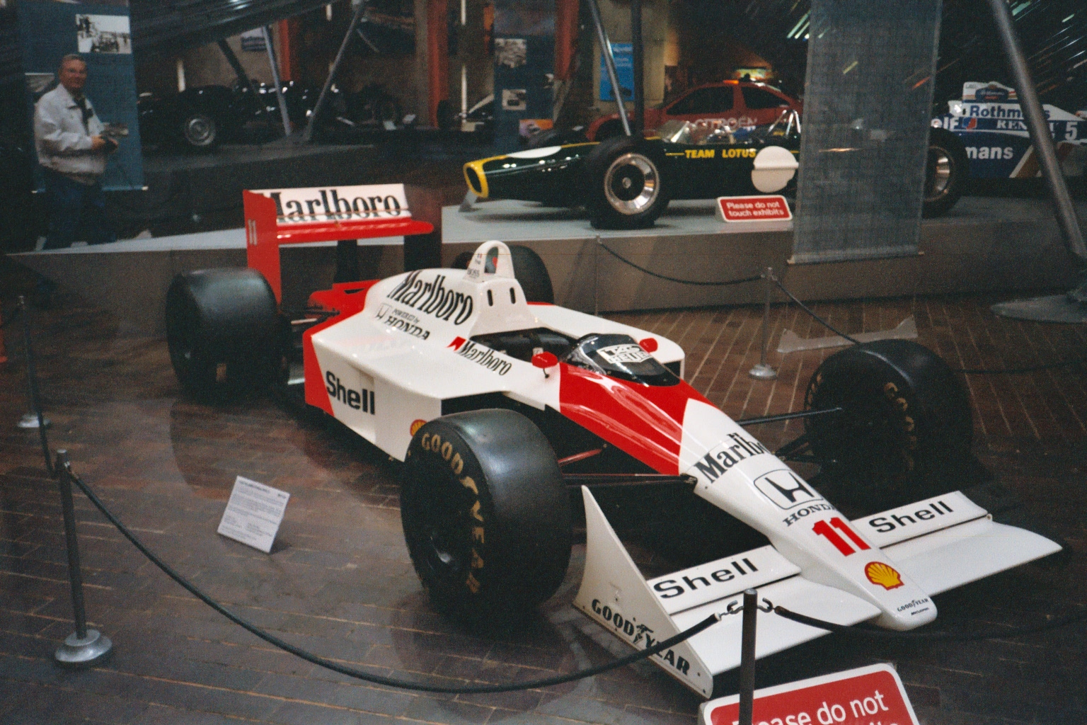 McLaren MP4/4 F1 car